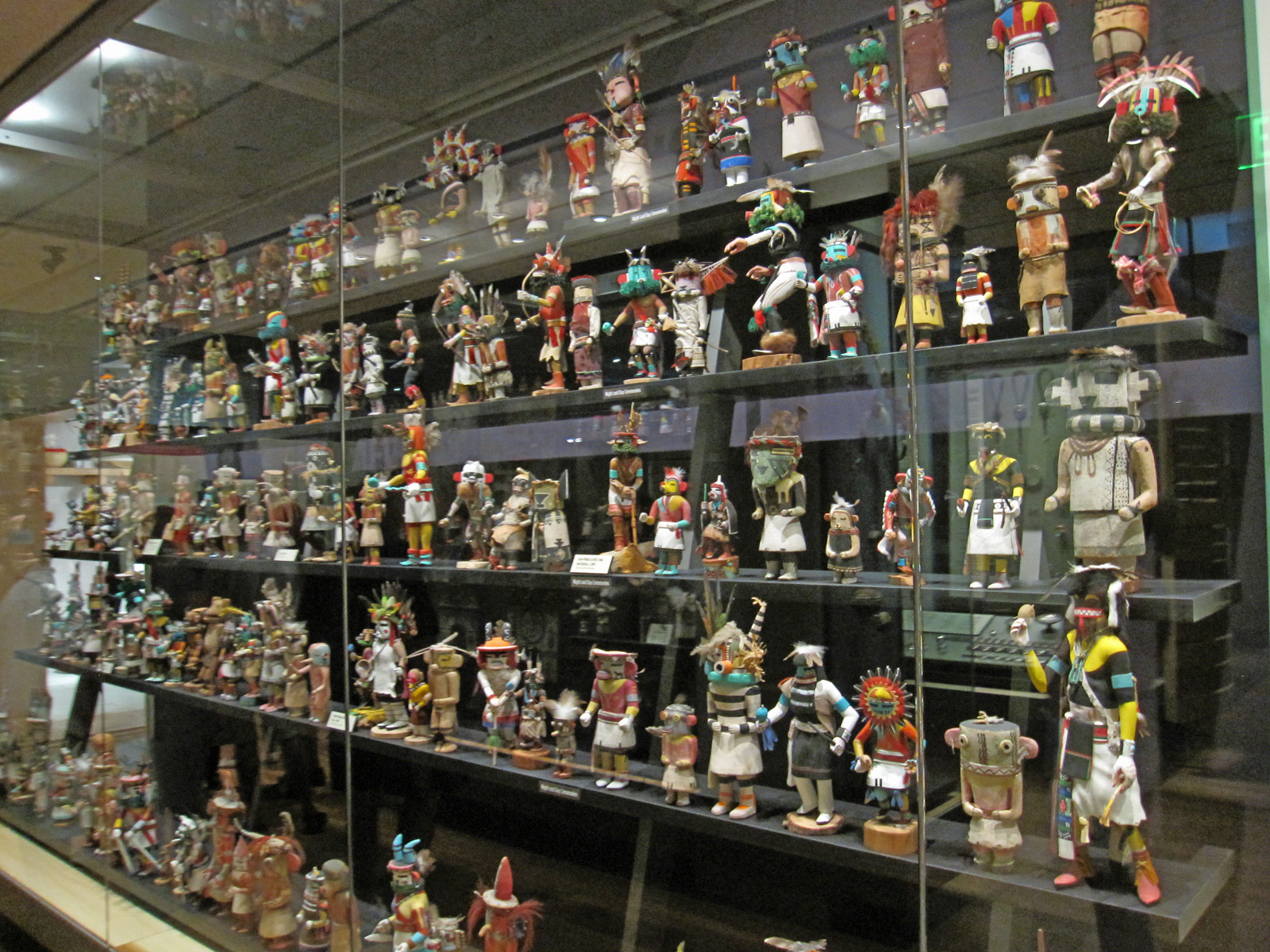 A collection of Katsinas as seen at Heard Museum, which deals with the diverse Native American cultures found throughout Arizona. Katsinas were spirit messengers in Hopi spirituality, representing all things in the natural world as well as ancestors. When a Hopi died, his/her spirit lived on in the form of a Katsina.